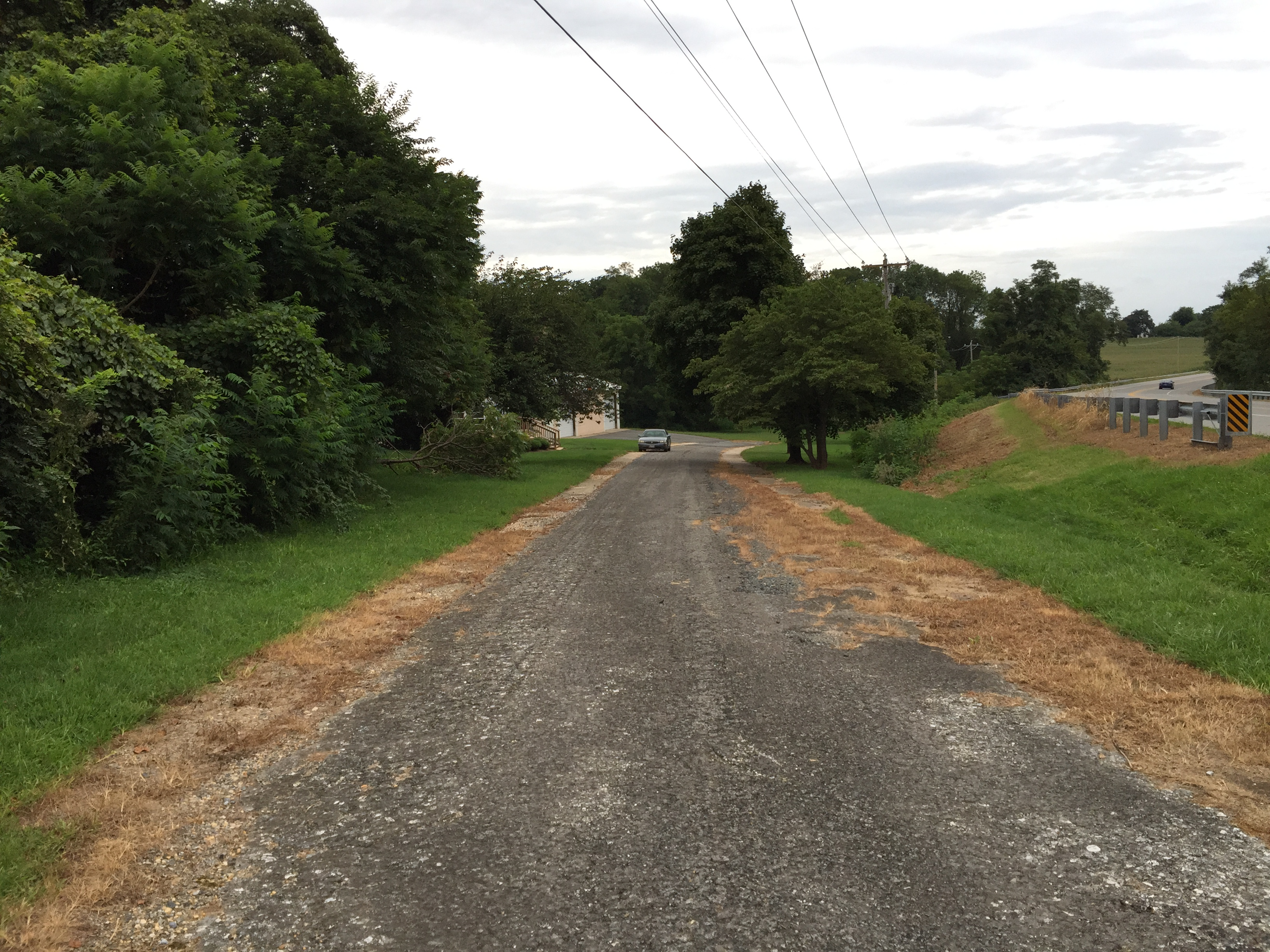 View north along Maryland State Route 855 at Maryland State Route 213 (Augustine Herman Highway) in Kent County, Maryland